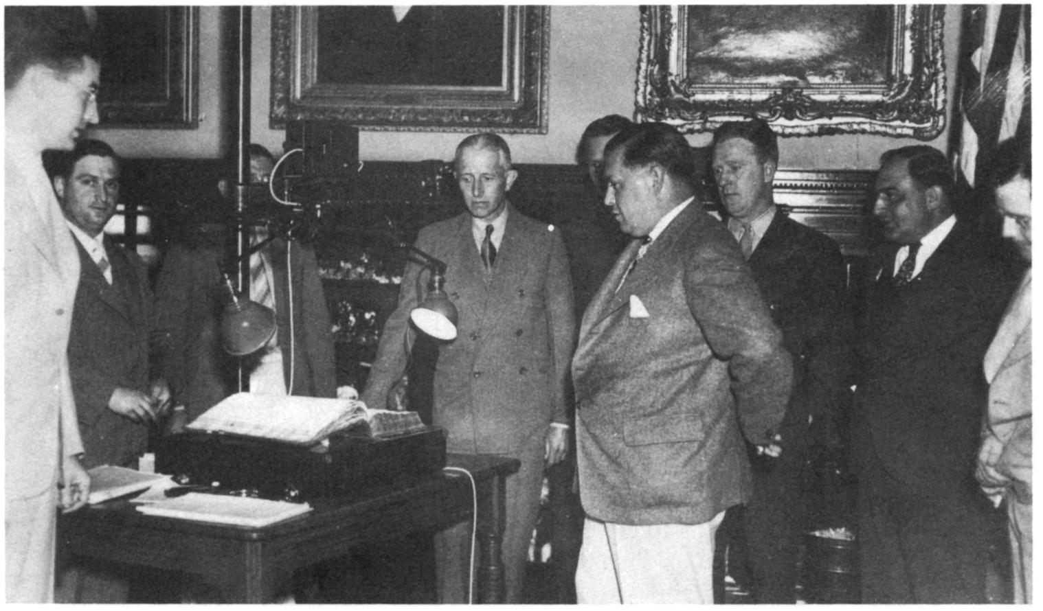 Microfilming of public records in New Jersey in 1937 as part of the Historical Records Survey.